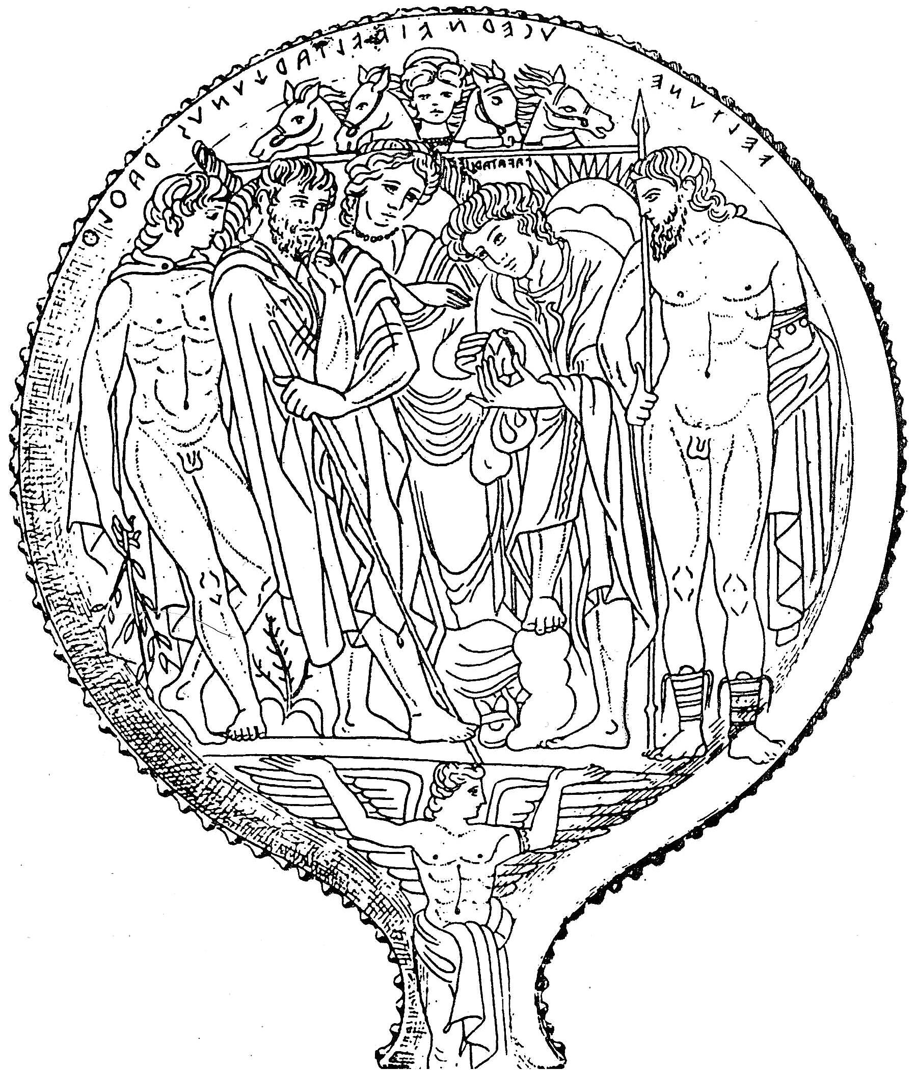 Bronze Mirror from Tuscania (National Archaeological Museum Florence)Scene of haruspicina, Pava Tarchies, wearing priestly hat, consults a liver in the presence of an attentive crowd. Etruscan mirror from Tuscania, Florence Museo Archeologico Nazionale.